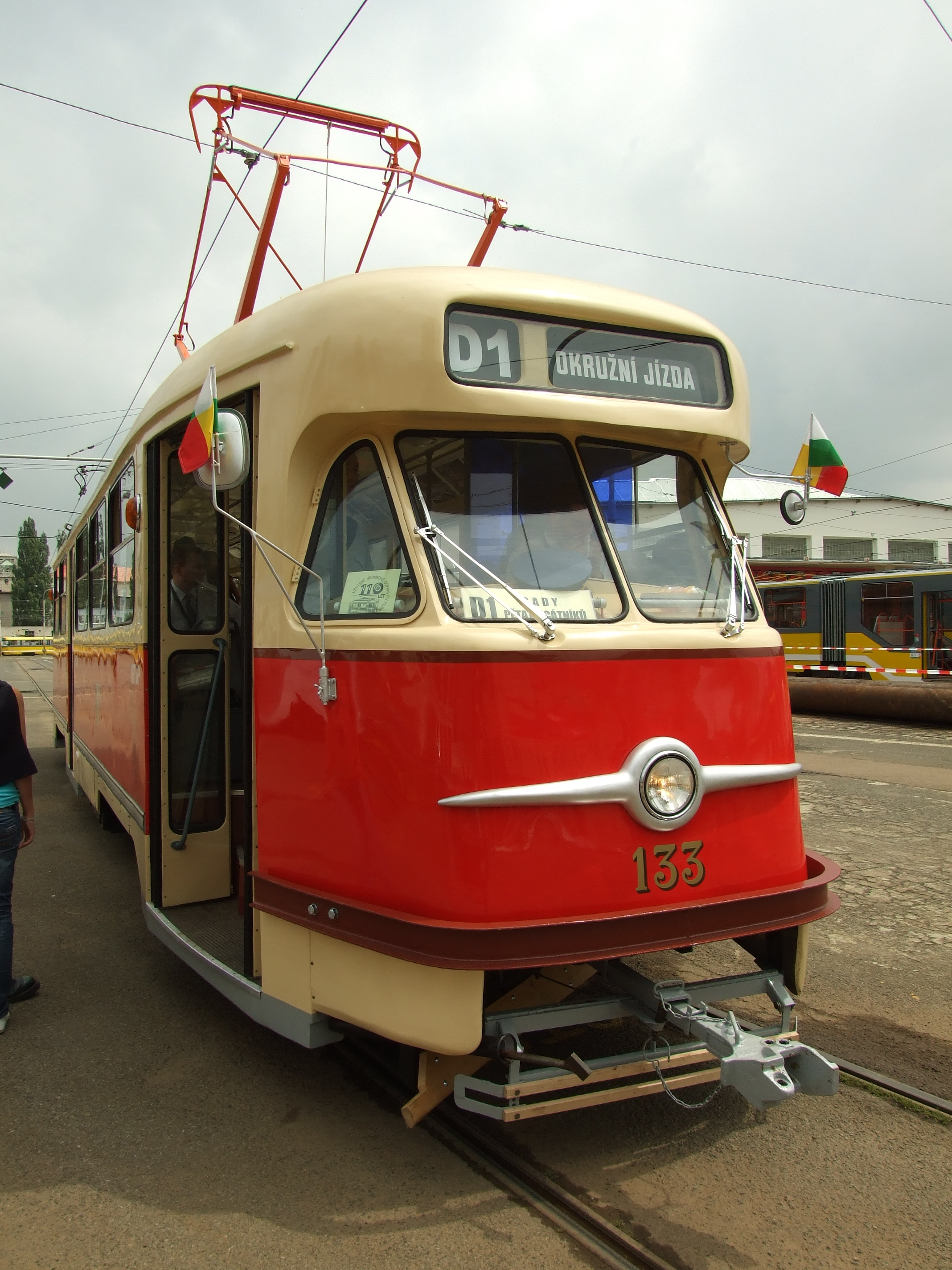 110th anniversary of public transport in Plzeň, Plzeň Region, CZ. Trams of depot Slovany in south-eastern part of Plzeňhelp